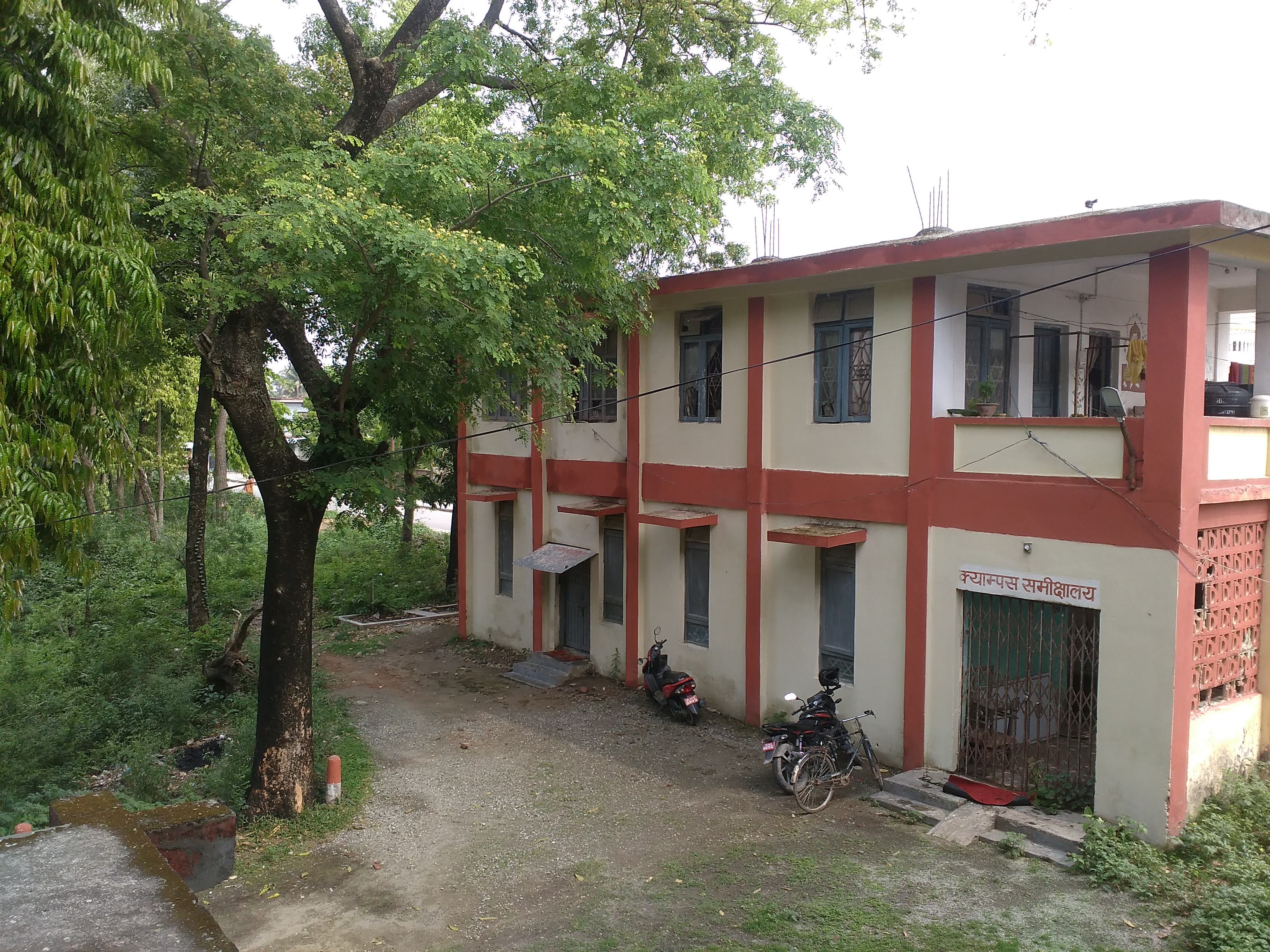 Mahendra Morang Inside Campus